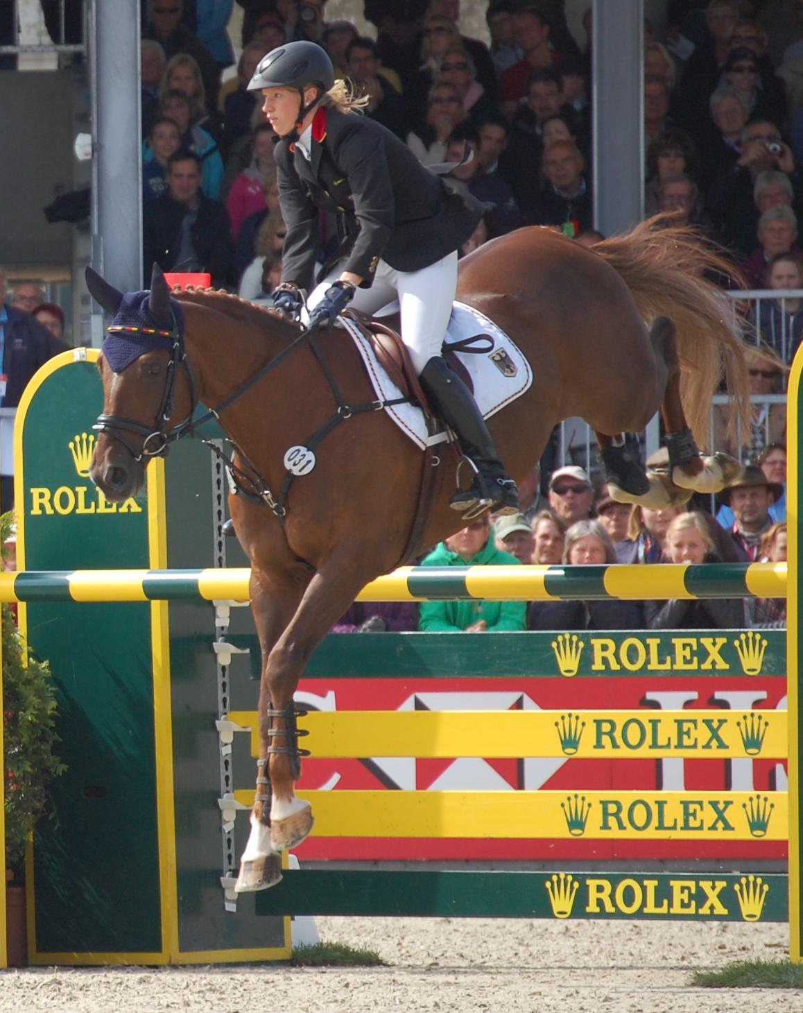 German eventing rider Sandra Auffarth and Opgun Louvo at the 2011 European Eventing Championship in Luhmühlen (show jumping phase).